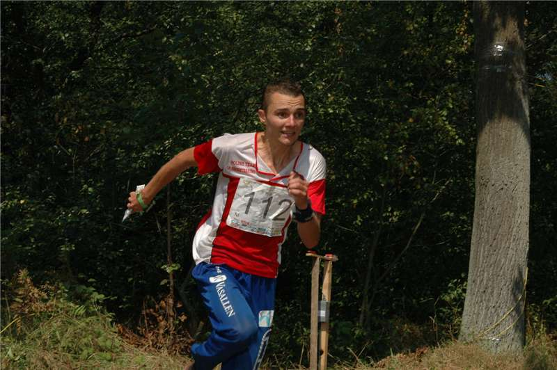 World Orienteering Championships 2007 in Kiev, Ukraine. On photo Pole Wojciech Kowalski.